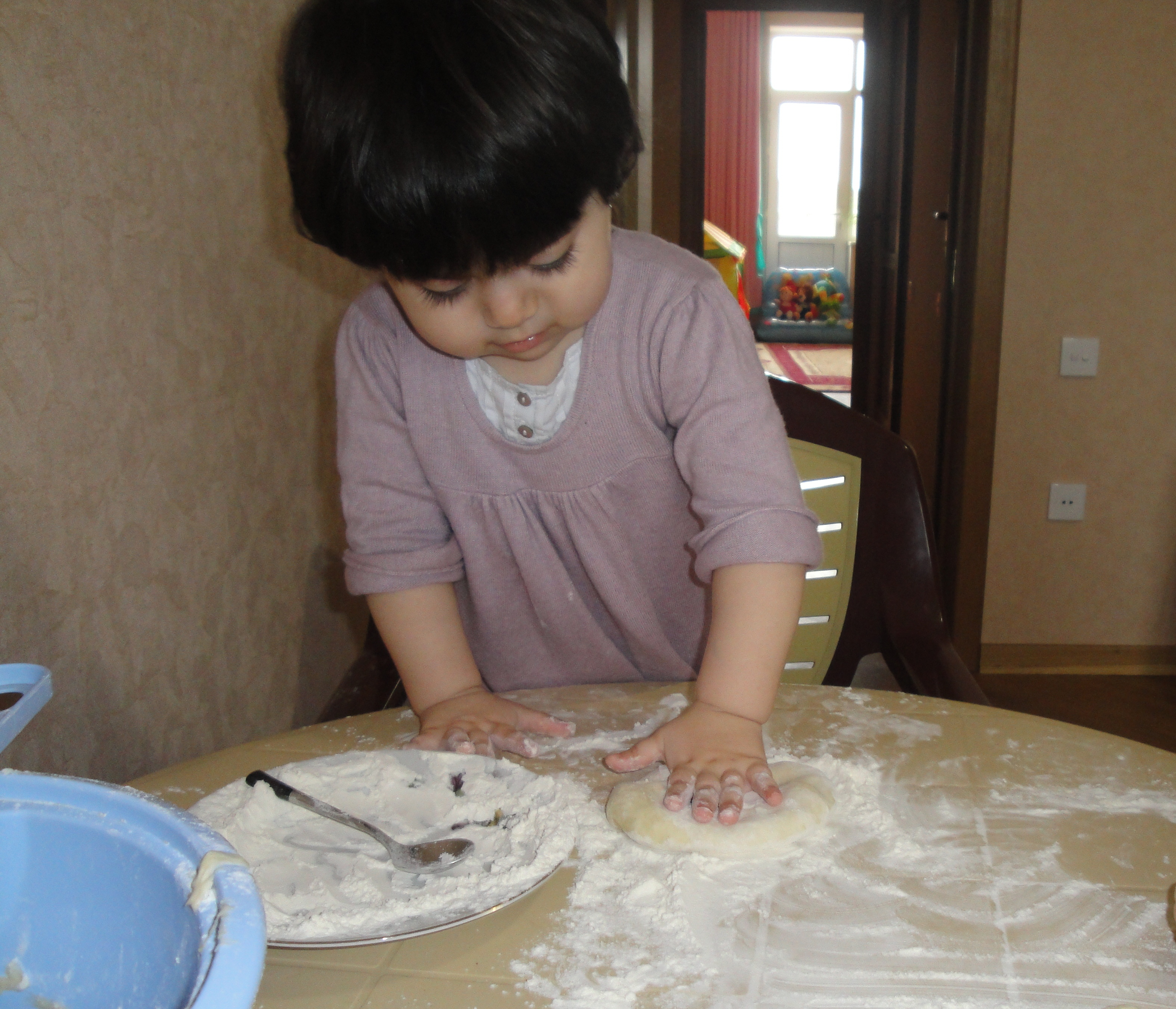 Az girl she knead dough